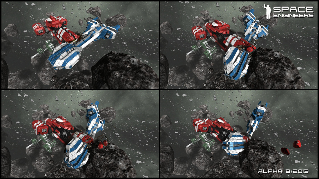 Screenshot of the game showing the damage to two ships at different points in a collision.